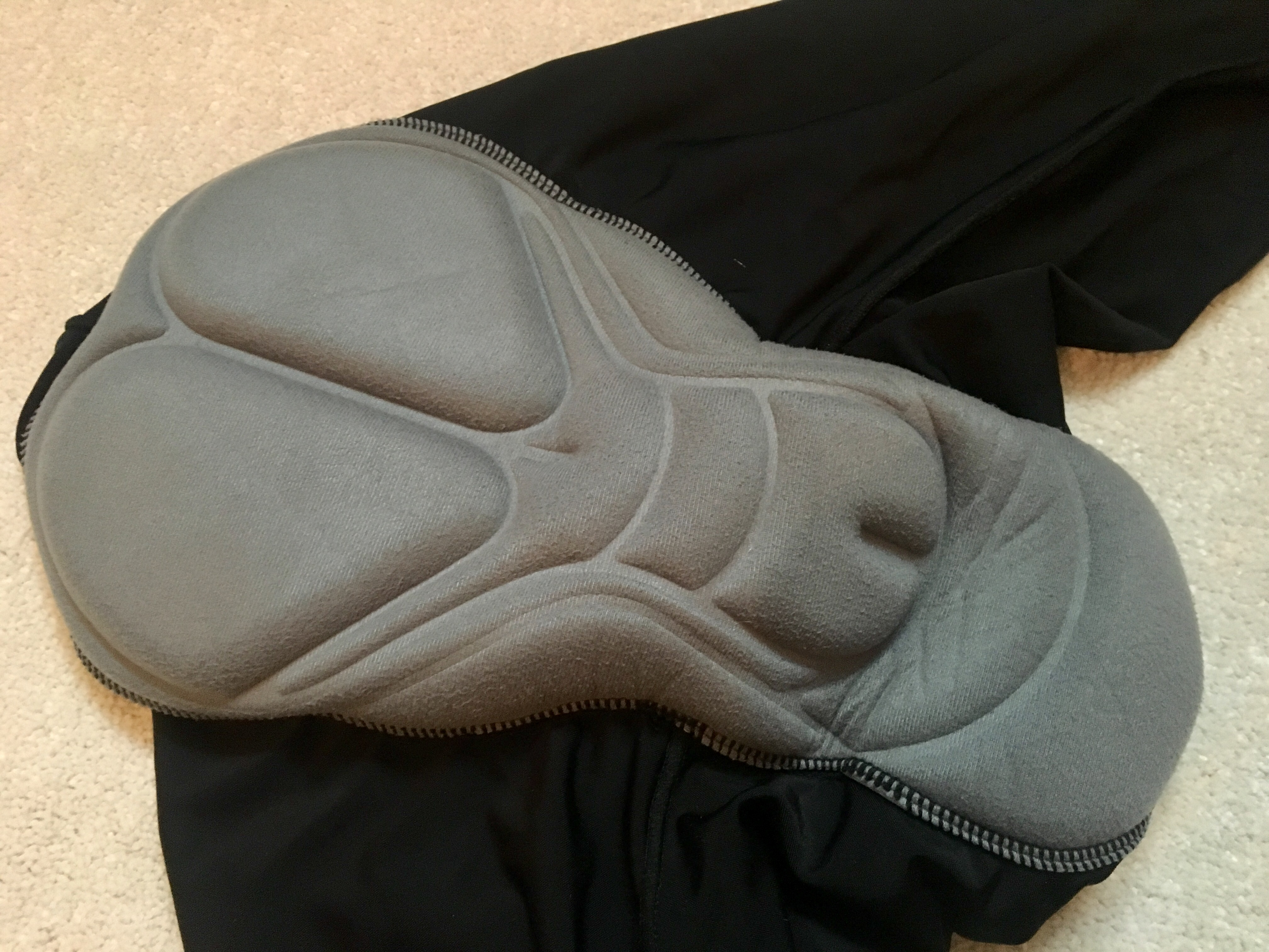 A pad typical of those used in modern cycling shorts.